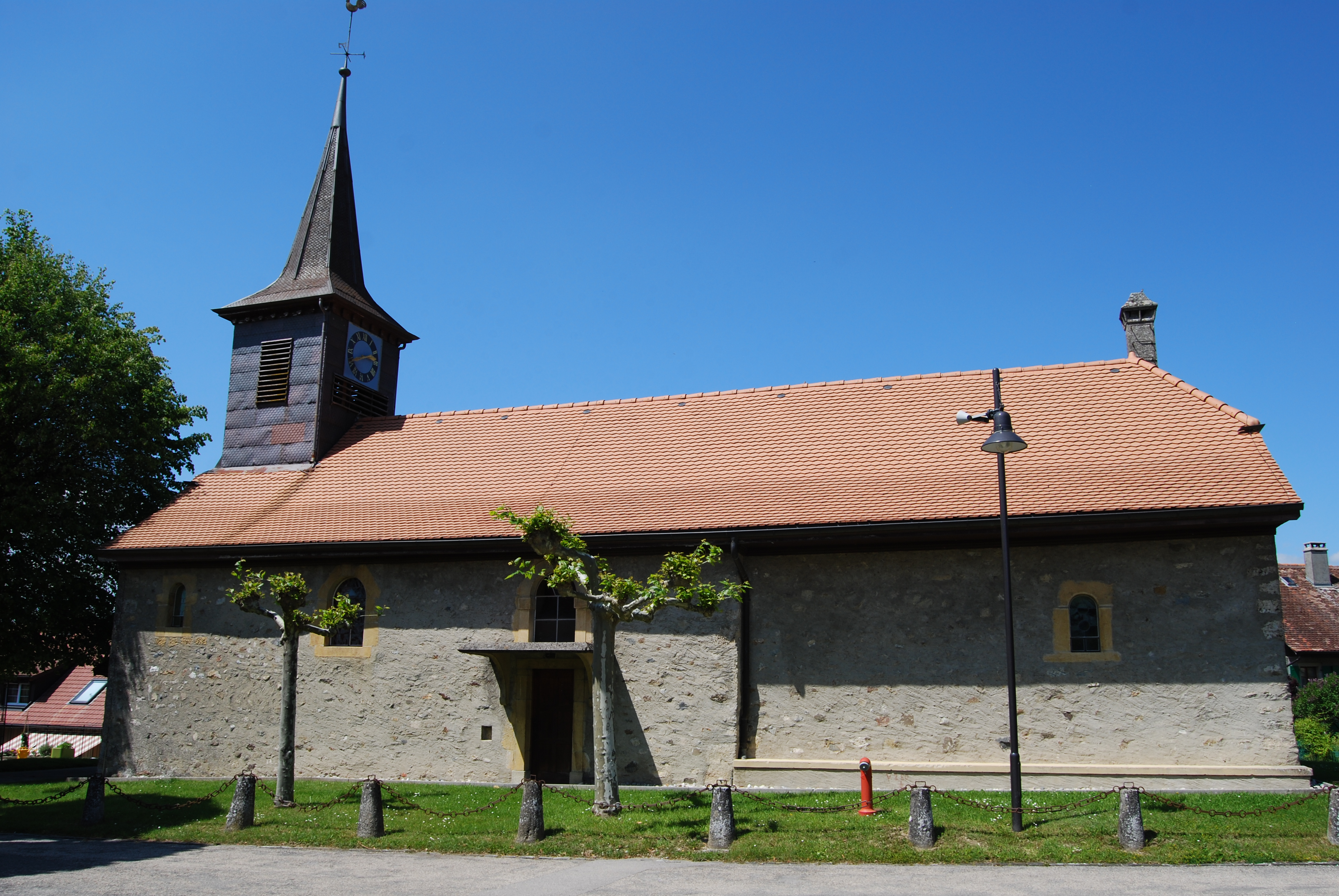 Saint Georges Church of Pomy, canton of Vaud, Switzerland